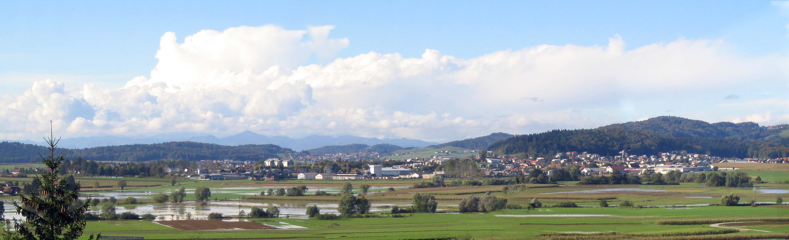 Polje of Grosuplje, Slovenia